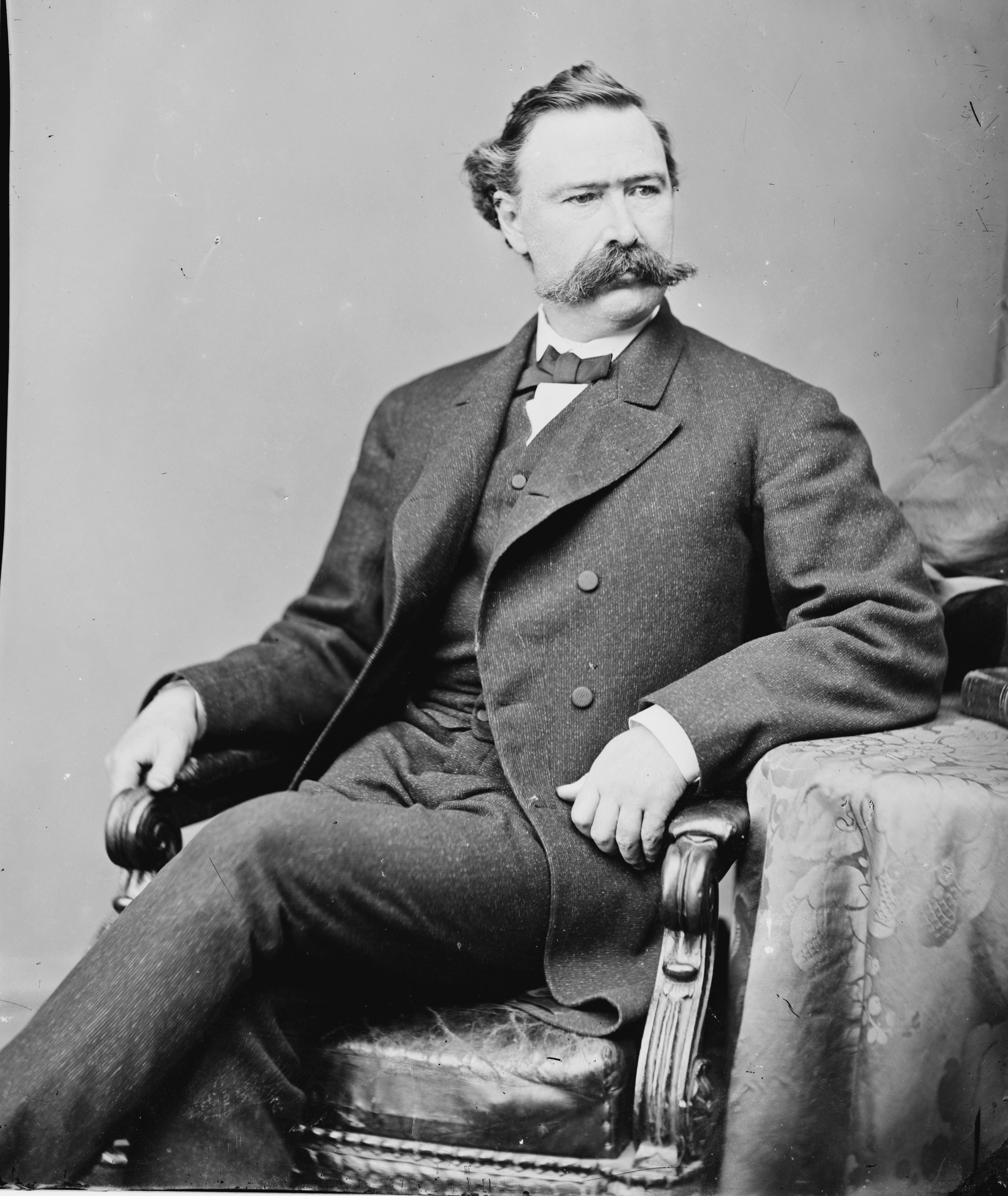 John P. Stockton. Library of Congress description: "John Potter Stockton".